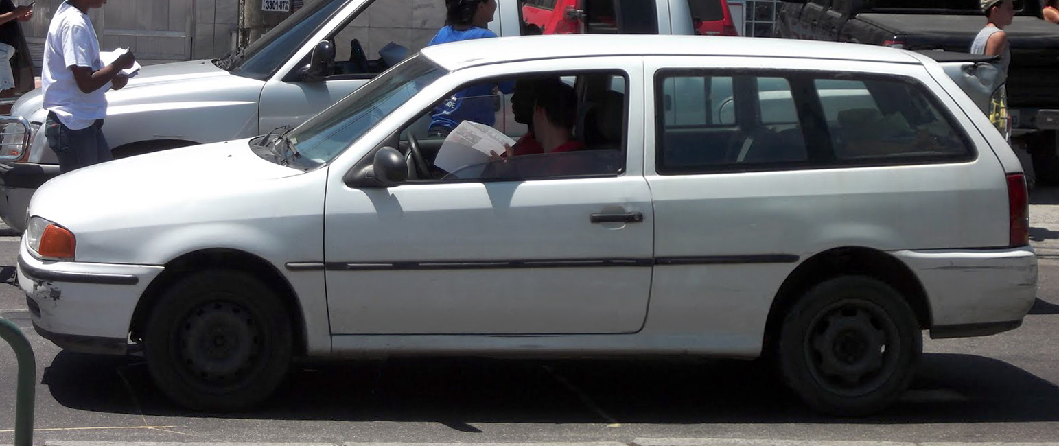 Volkswagen Paratí of the second generation, this slow selling three-door wagon was soon replaced by a proper five-door version